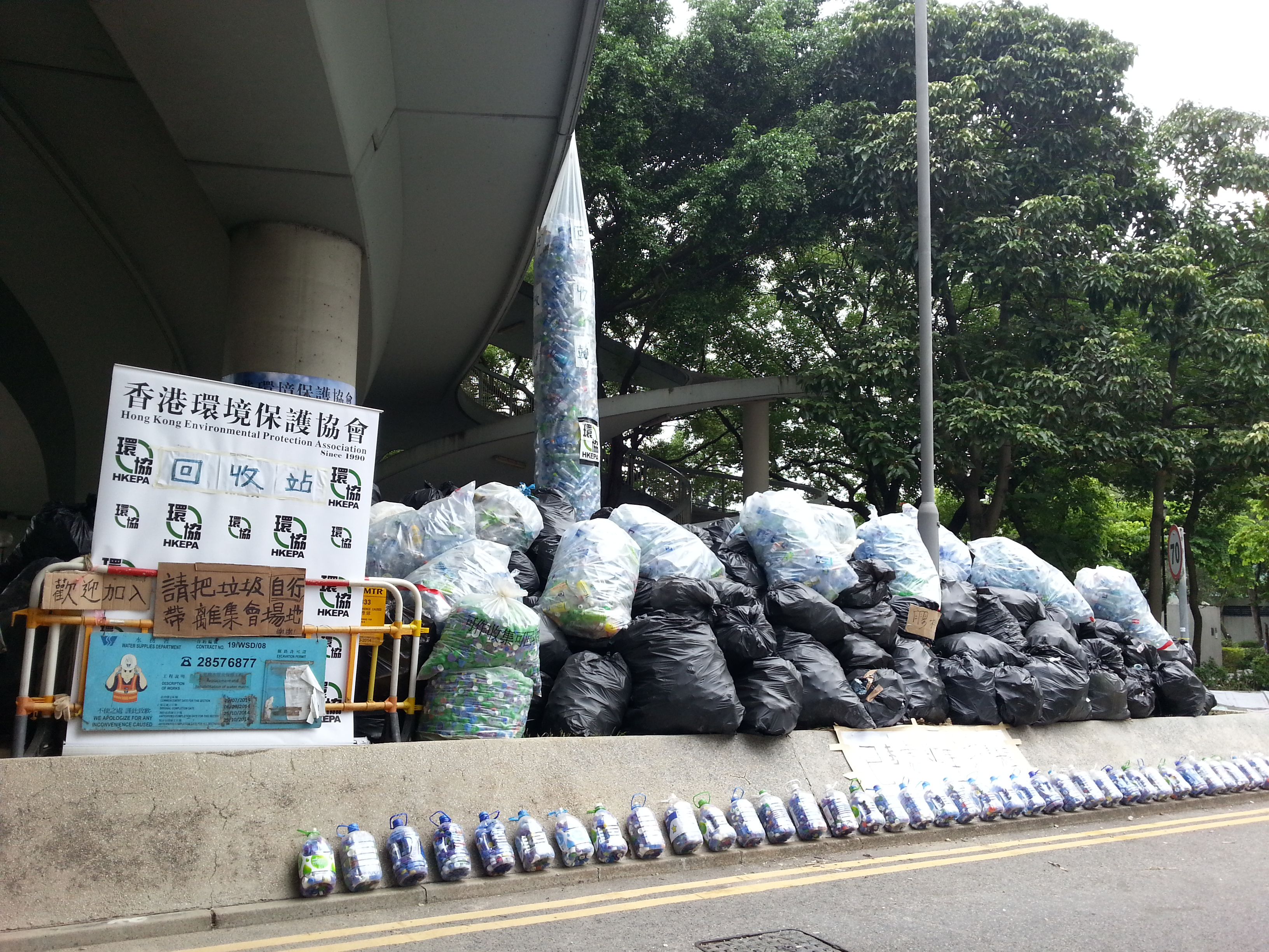 Volunteer-organized recycling station on Harcourt Road, Admiralty, Hong Kong, established during the 2014 Hong Kong protests